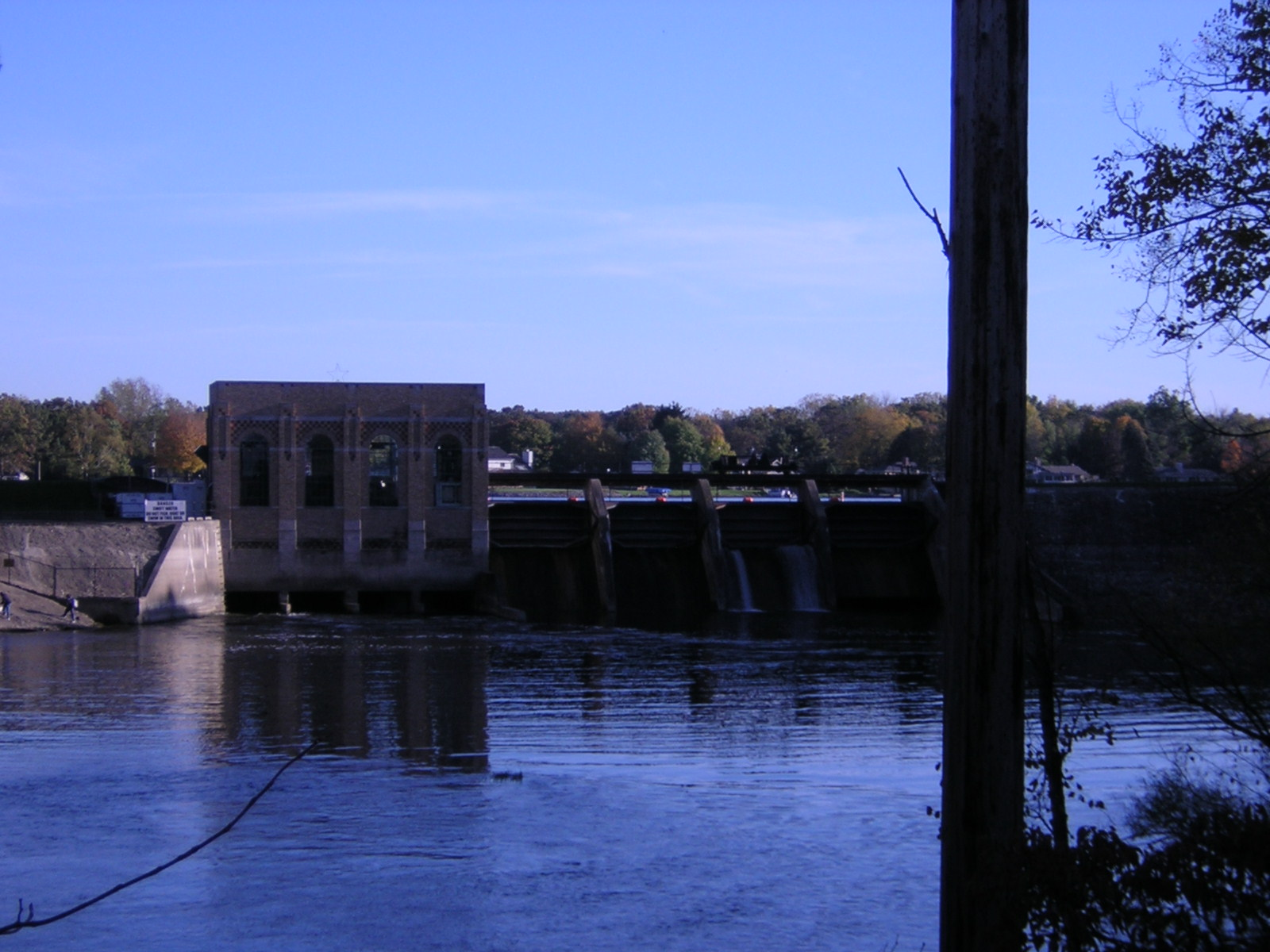 A scene from Ada, Michigan. Ada Township is a civil township of Kent County in the U.S. state of Michigan. As of the 2000 census, the township population was 9,882. The unincorporated community of Ada is located within the township on M-21 twelve miles east of Grand Rapids. Ada is the corporate home of Alticor and its subsidiary companies Quixtar and Amway. This image is of the Thornapple Dam just S of where it joins the Grand River.